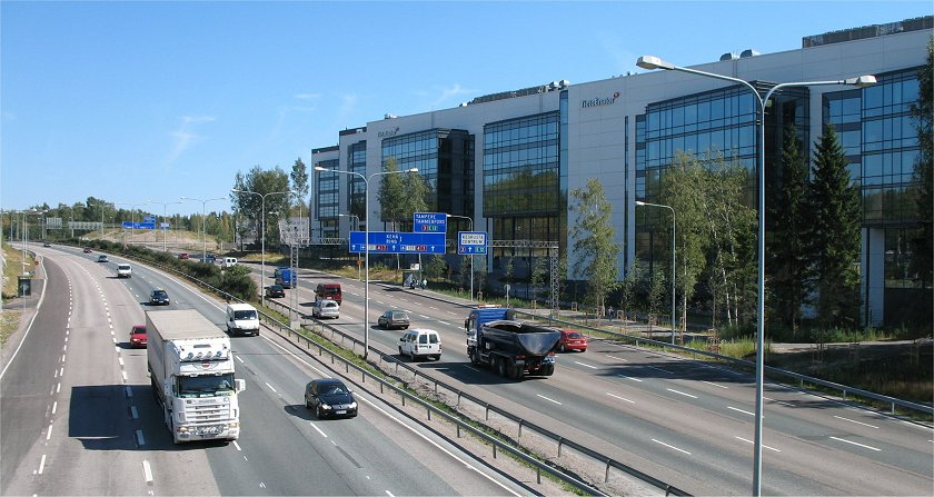 View of Ring road I (Kehä I, regional road 101) in Lassila, Western Helsinki, Finland.